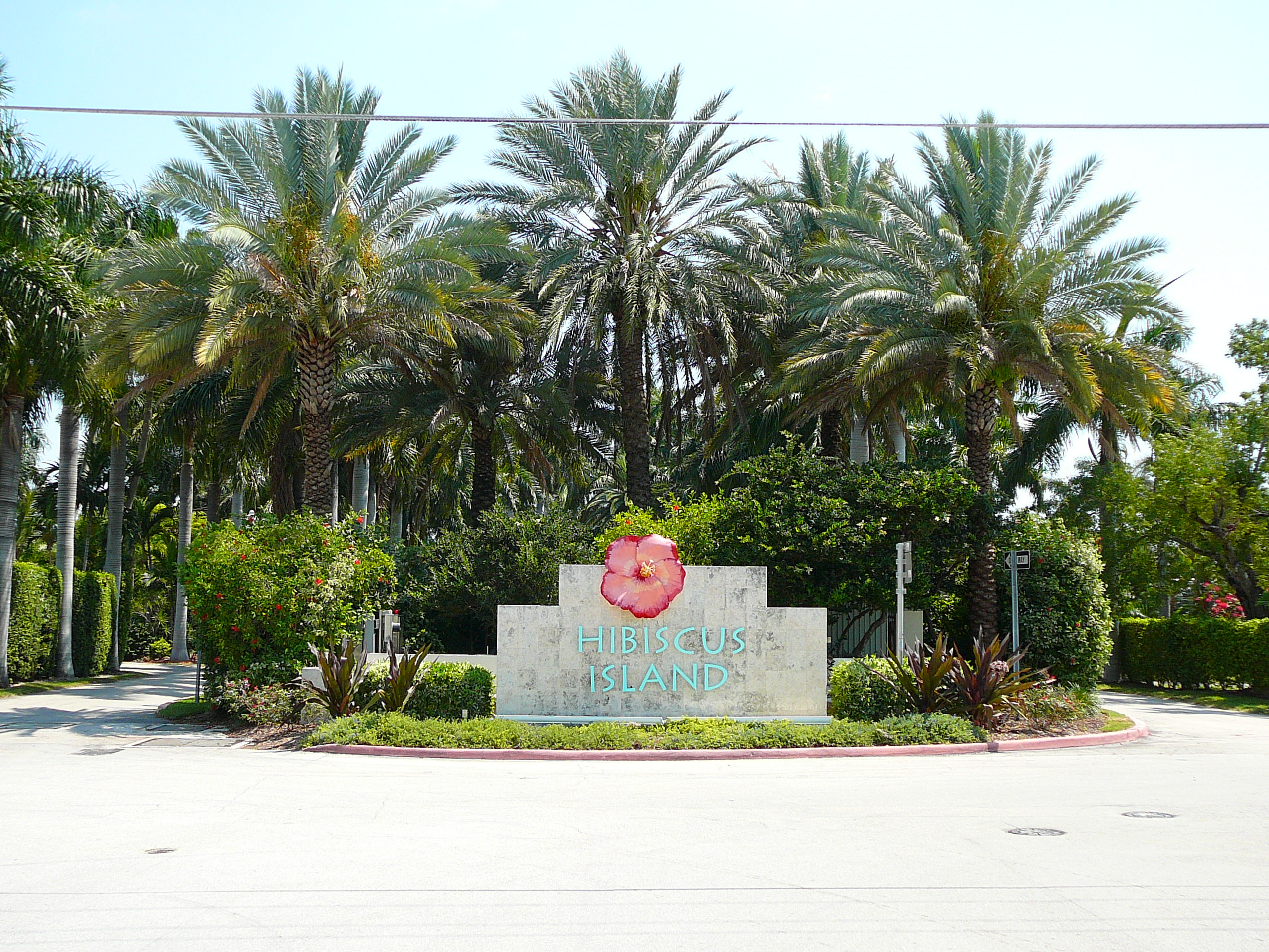 Digital photo taken by Marc Averette. Sign marking entrance to Hibiscus Island in Miami Beach, Florida north of Palm Island and the MacArthur Causeway 5/17/2008